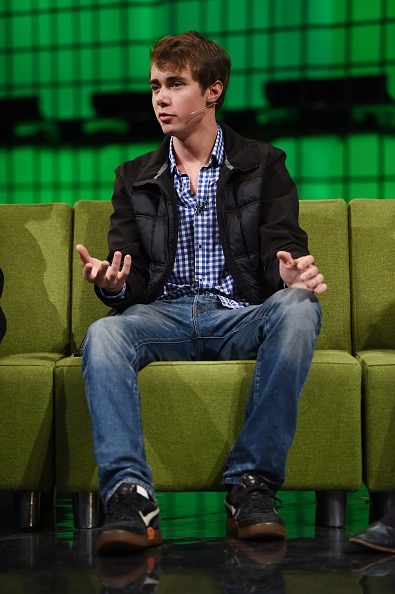 William LeGate discussing "What if Children Ruled the World?" on the Main Stage at the Web Summit in Dublin, Ireland.